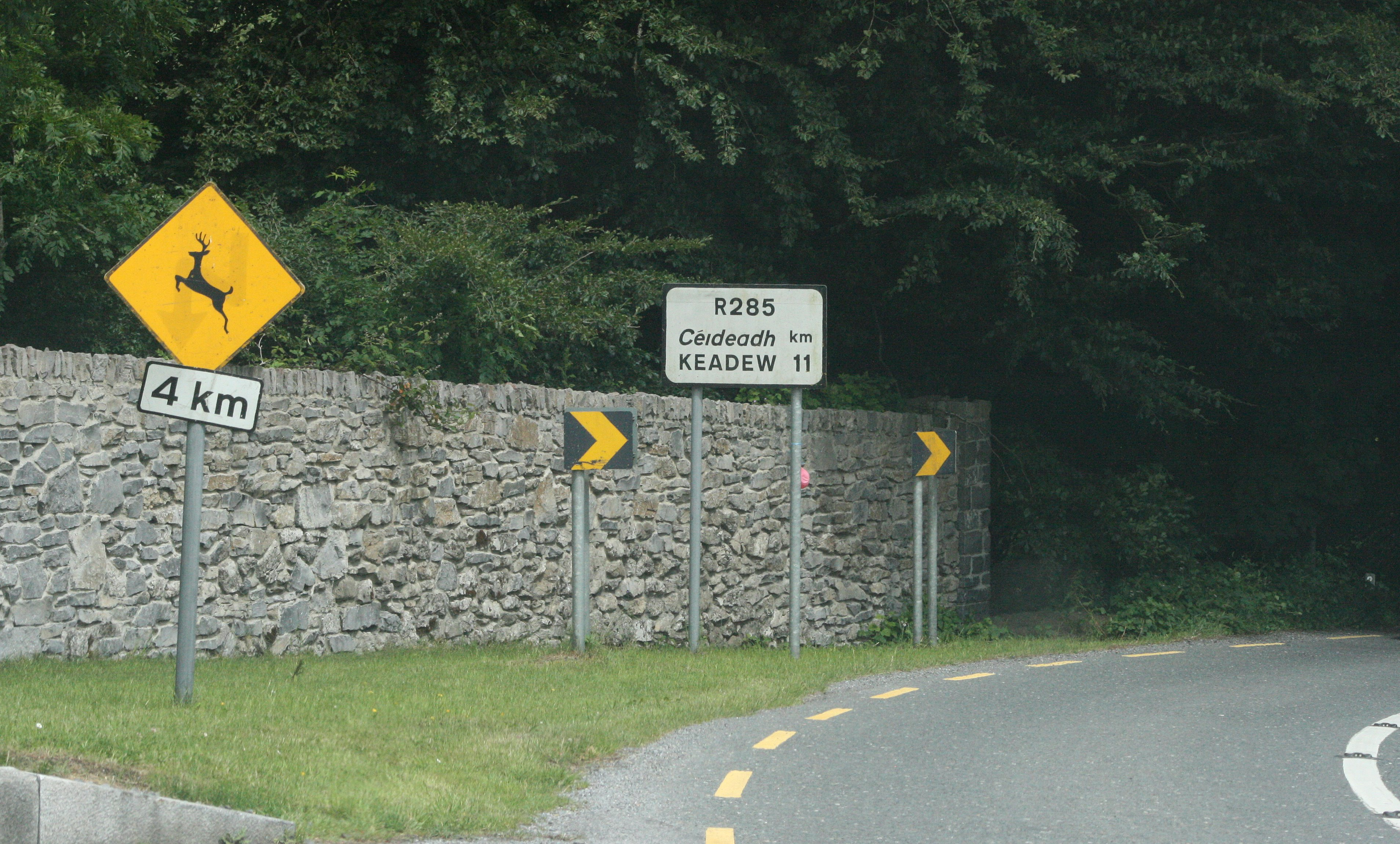 The R285 road in County Roscommon near its junction with he N4.